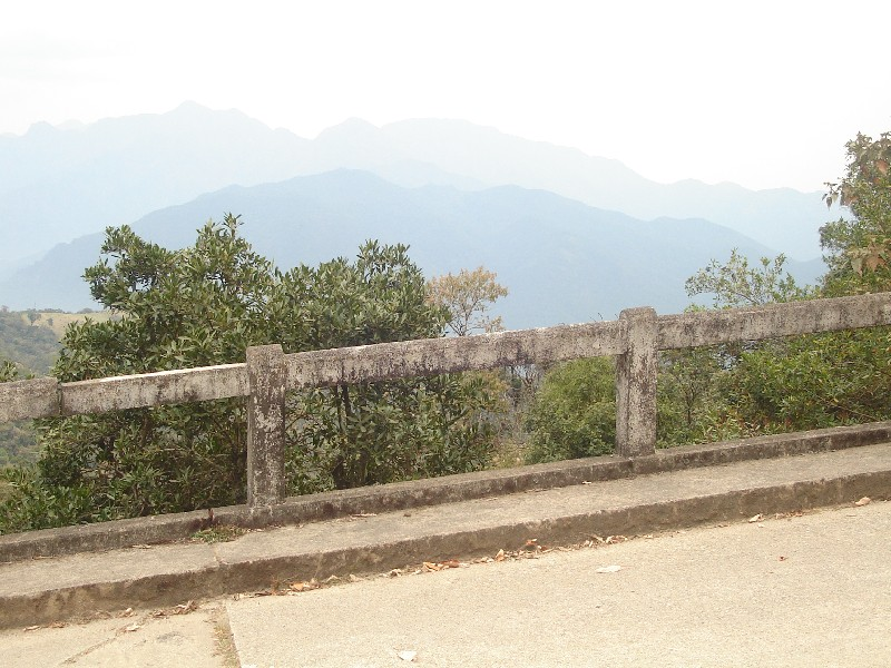 Itatiaia National Park, landscape as seen from the secondary entrance